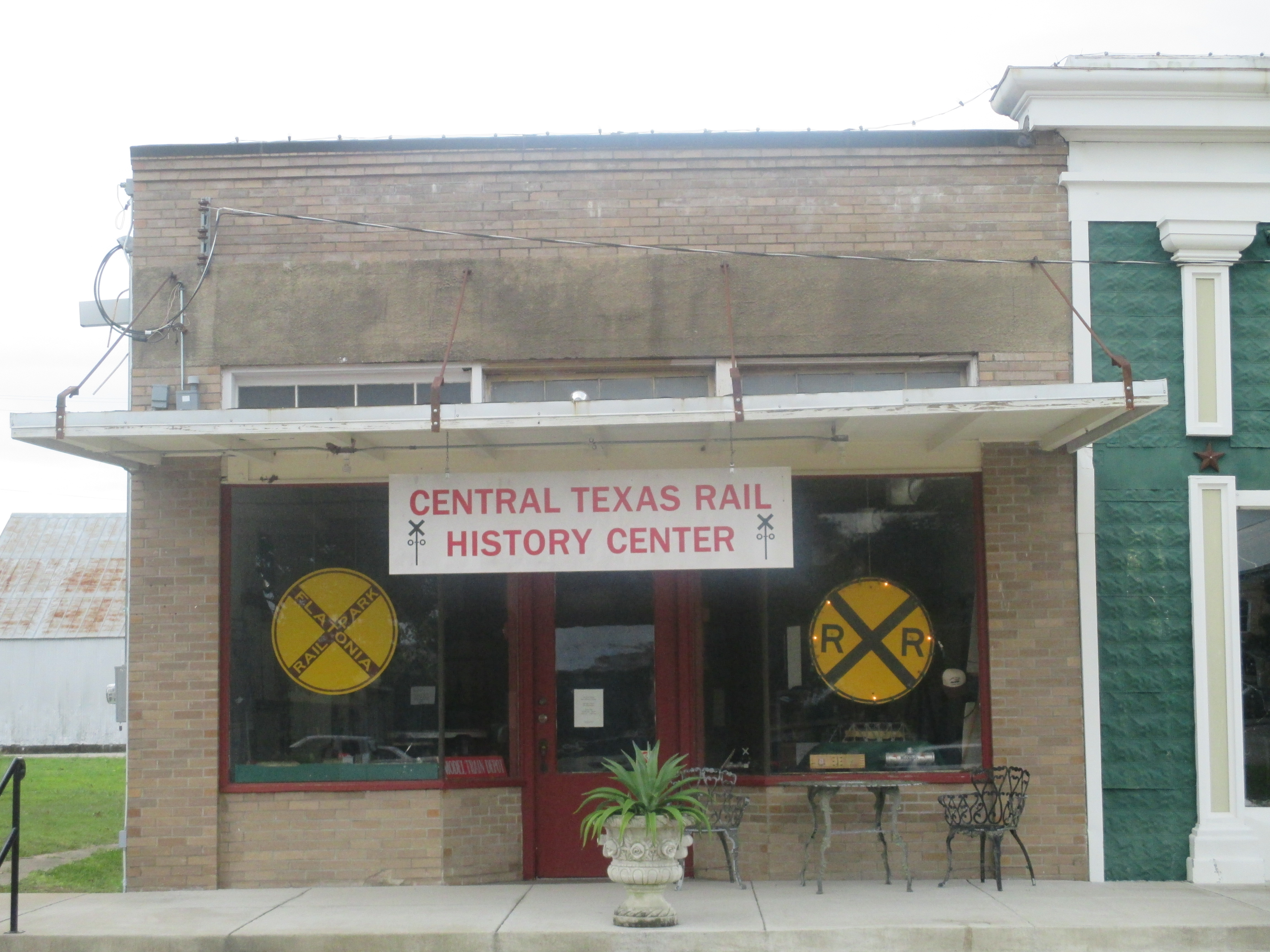 Central Texas Rail History Center at 104 E. South Main St. in Flatonia, TX.